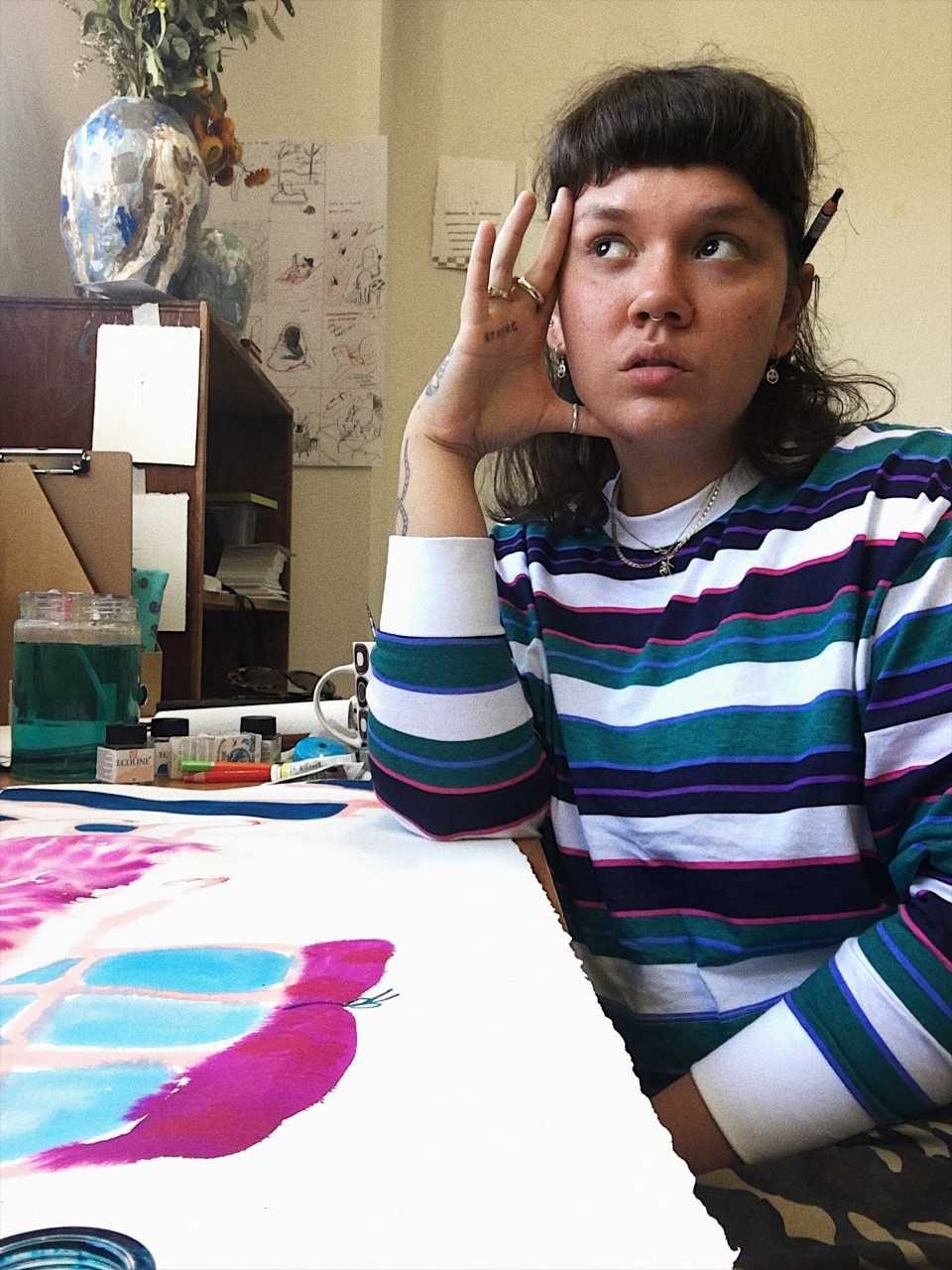 A photo of artist Frances Cannon in Pink Ember Studio located in Melbourne. She is wearing a striped shirt, and is sitting amongst art supplies at a desk. Frances is not smiling, but pouting slightly. A pencil is behind her ear, and there is an unfinished work in front of her on the desk.